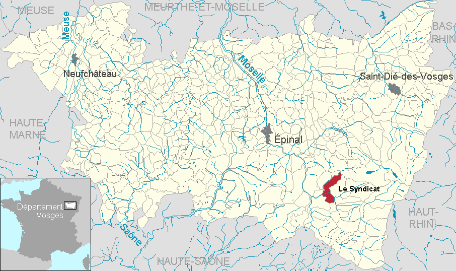 Le Syndicat in the department of Vosges, Lorraine, France